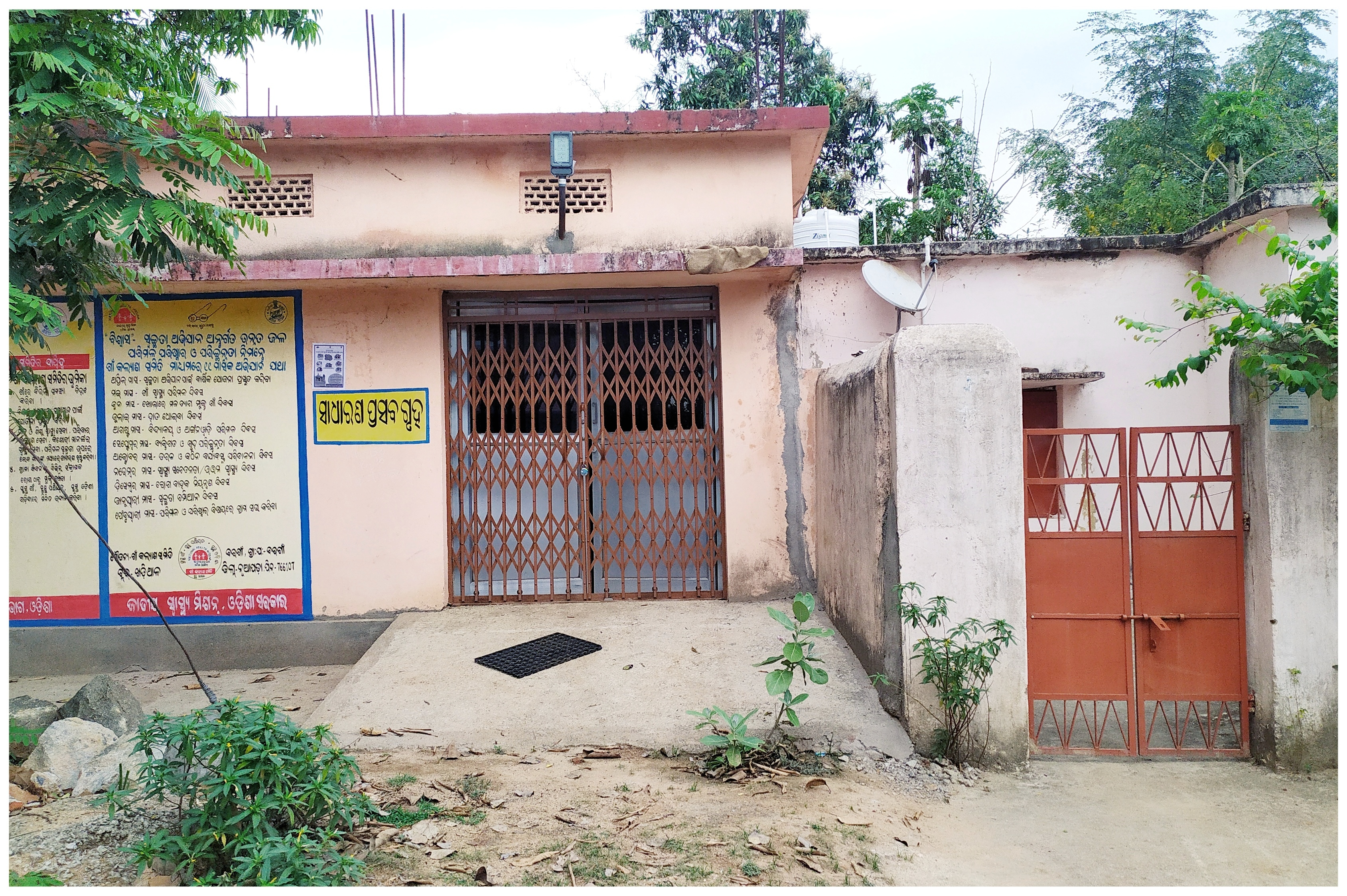 Maternity and Child Walfare Centre, Bargaon